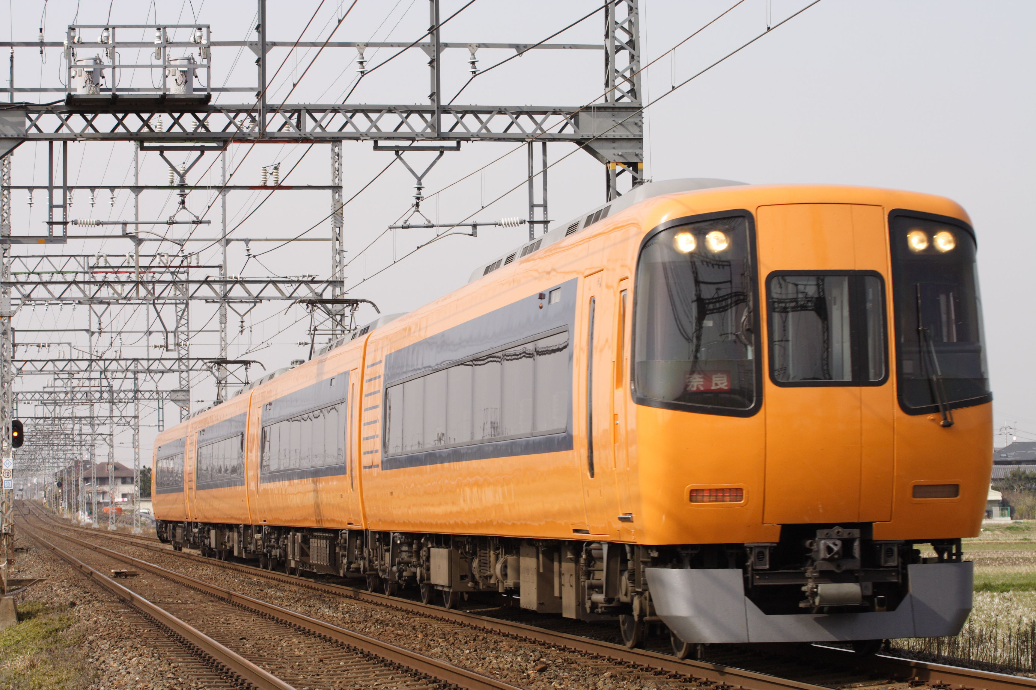 A Kintetsu 22000 series EMU on the Kintetsu Kyoto Line